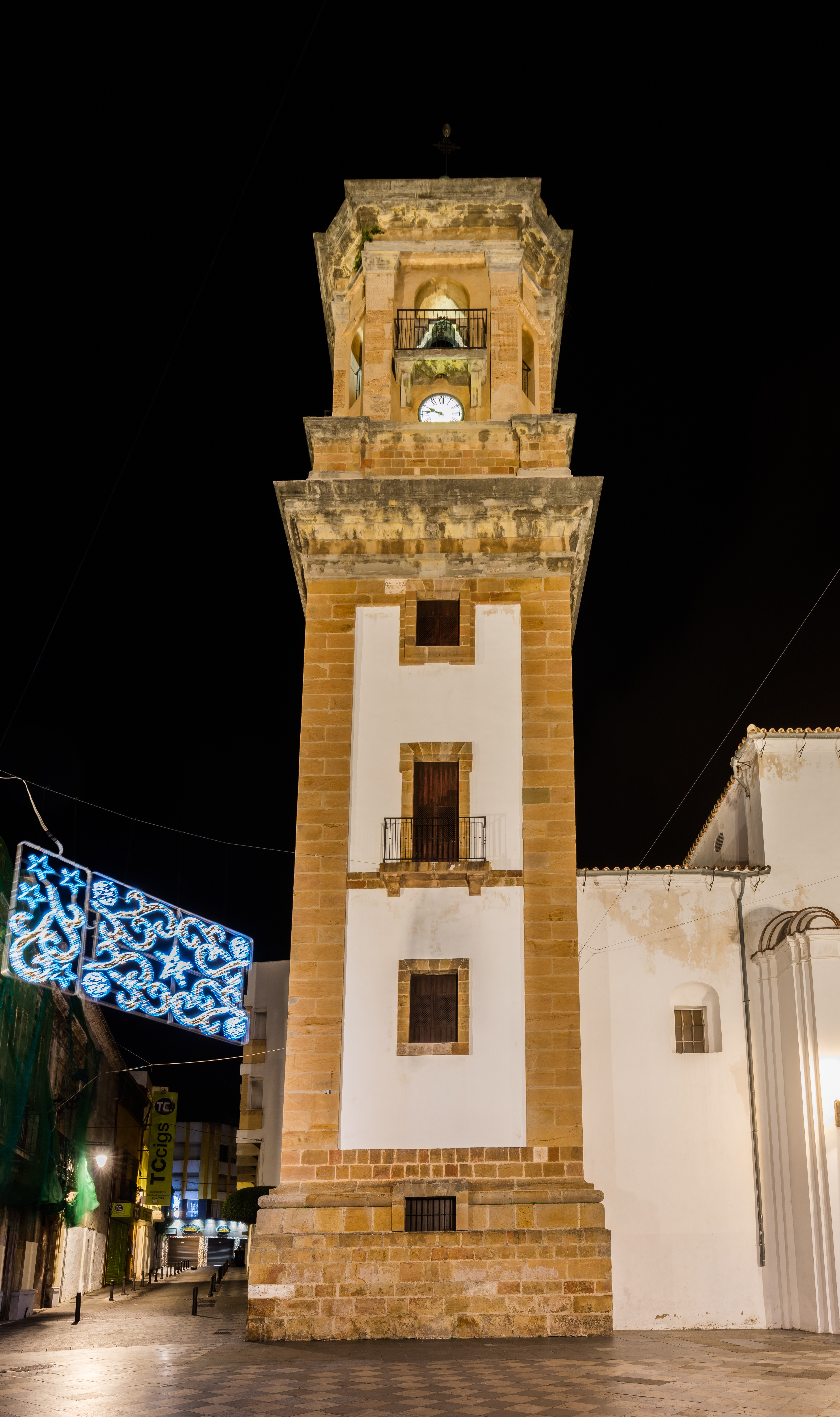 Church of Nuestra Señora de la Palma, Algeciras, Cádiz, Spain